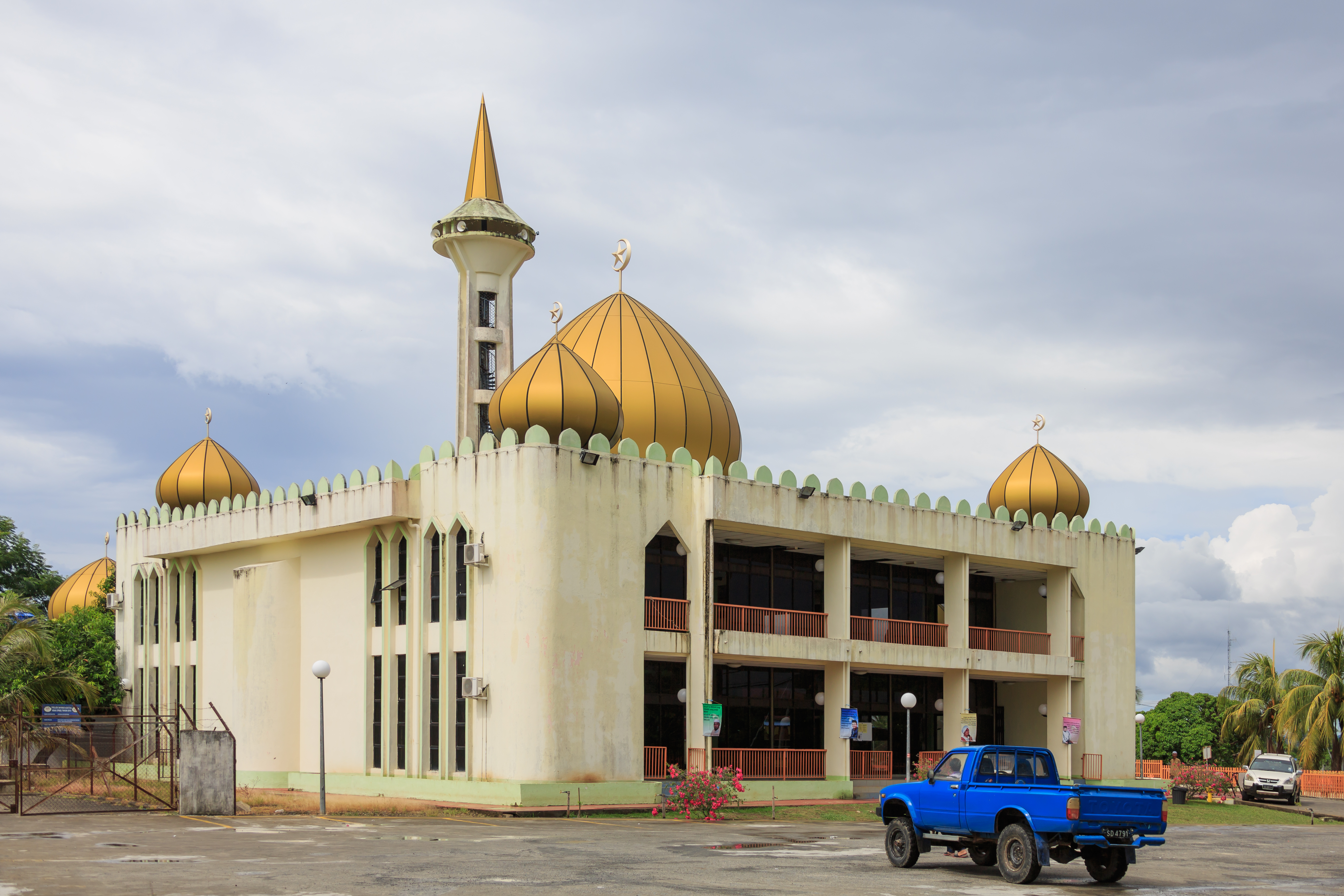 Kunak, Sabah: Masjid Datuk Zainal Gunong